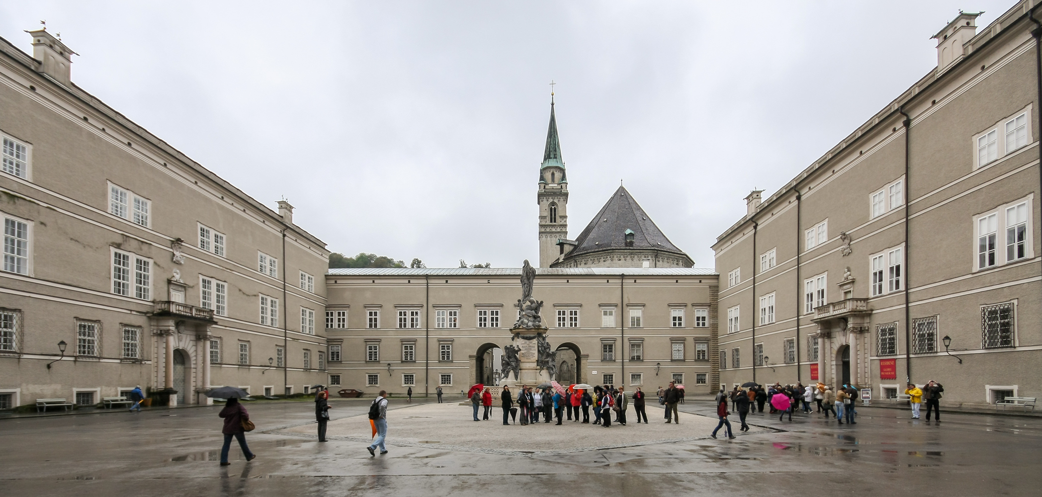 Domplatz (Cathedral Square) in the historic centre of the city of Salzburg, as seen from the cathedral. The square is surrounded by a part of Salzburg Residence. In the center: Wallistrakt which houses lecture halls of the University of Salzburg. In the background: Franciscan church.